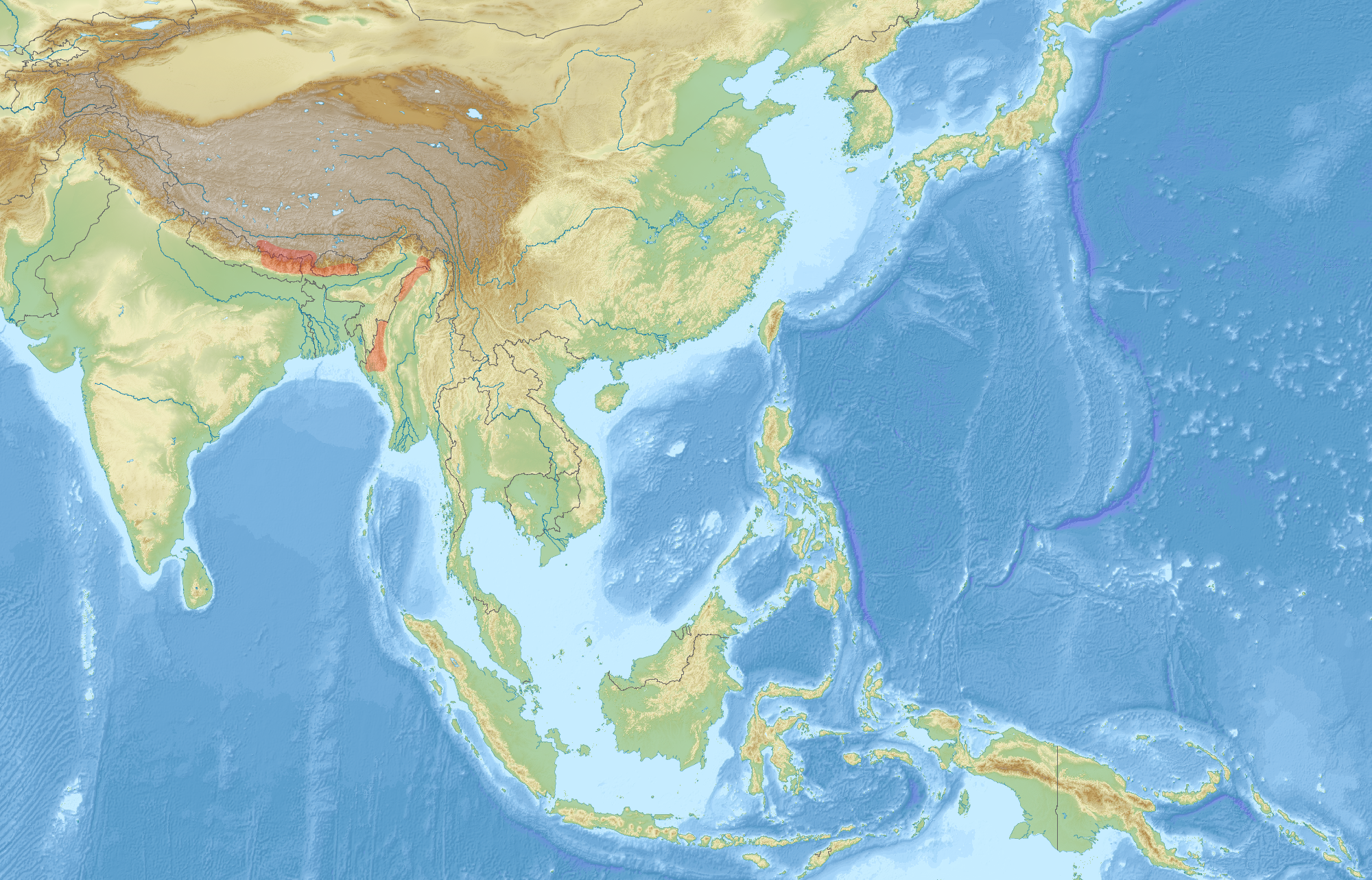 Distribution of Petaurista magnificus Projection: Equirectangular projection, strechted by 112.0%. Geographic limits of the map: N: 44.0° N S: -11.0° N W: 67.0° E E: 163.0° E GMT projection: -JX33.86666666666667cd/21.73111111111111cd GMT region: -R67.0/-11.0/163.0/44.0r GMT region for grdcut: -R67.0/-11.0/163.0/44.0r Relief: SRTM30plus. Made with Natural Earth. Free vector and raster map data @ .